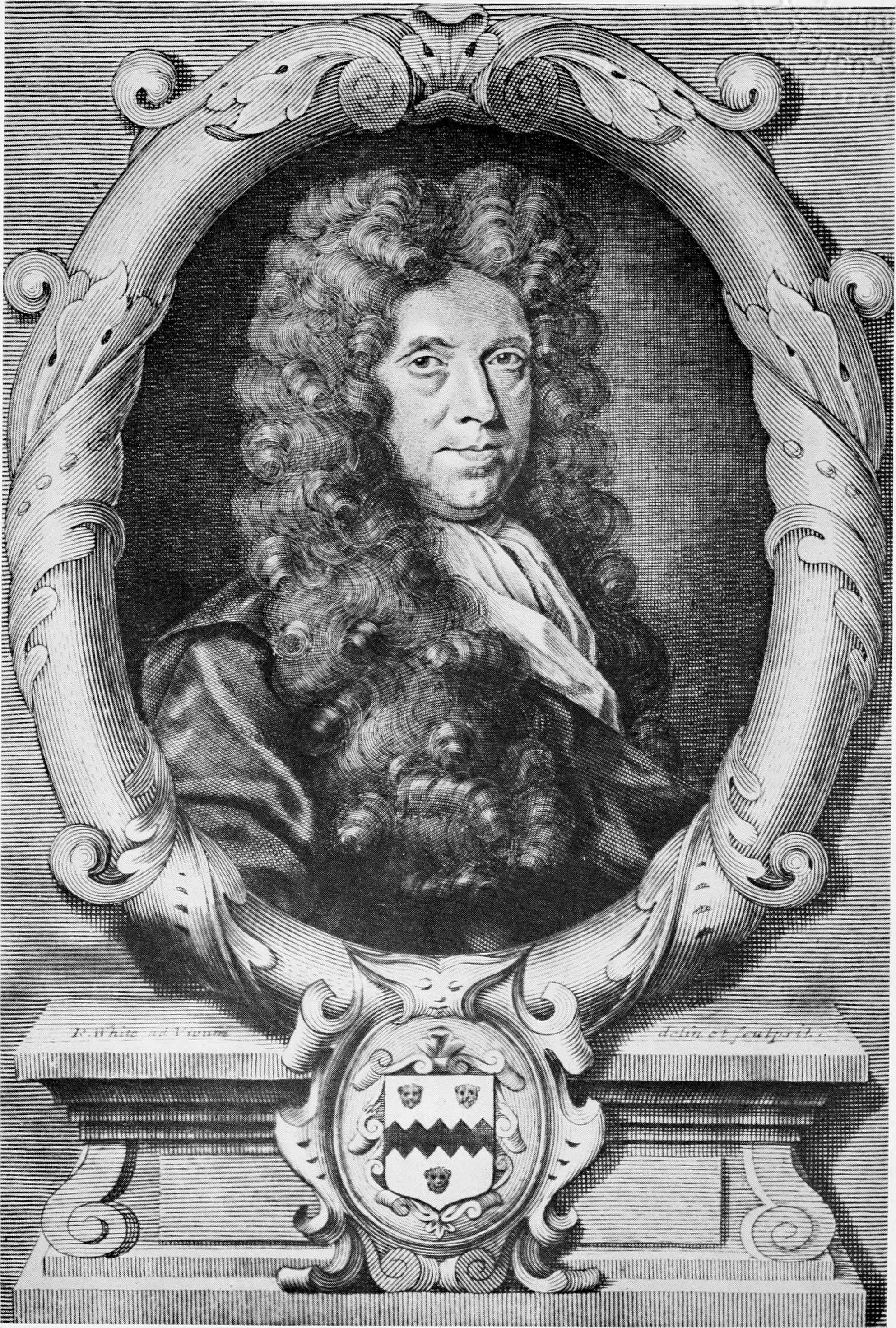 woodcut of Nehemiah Grew (1641–1712)